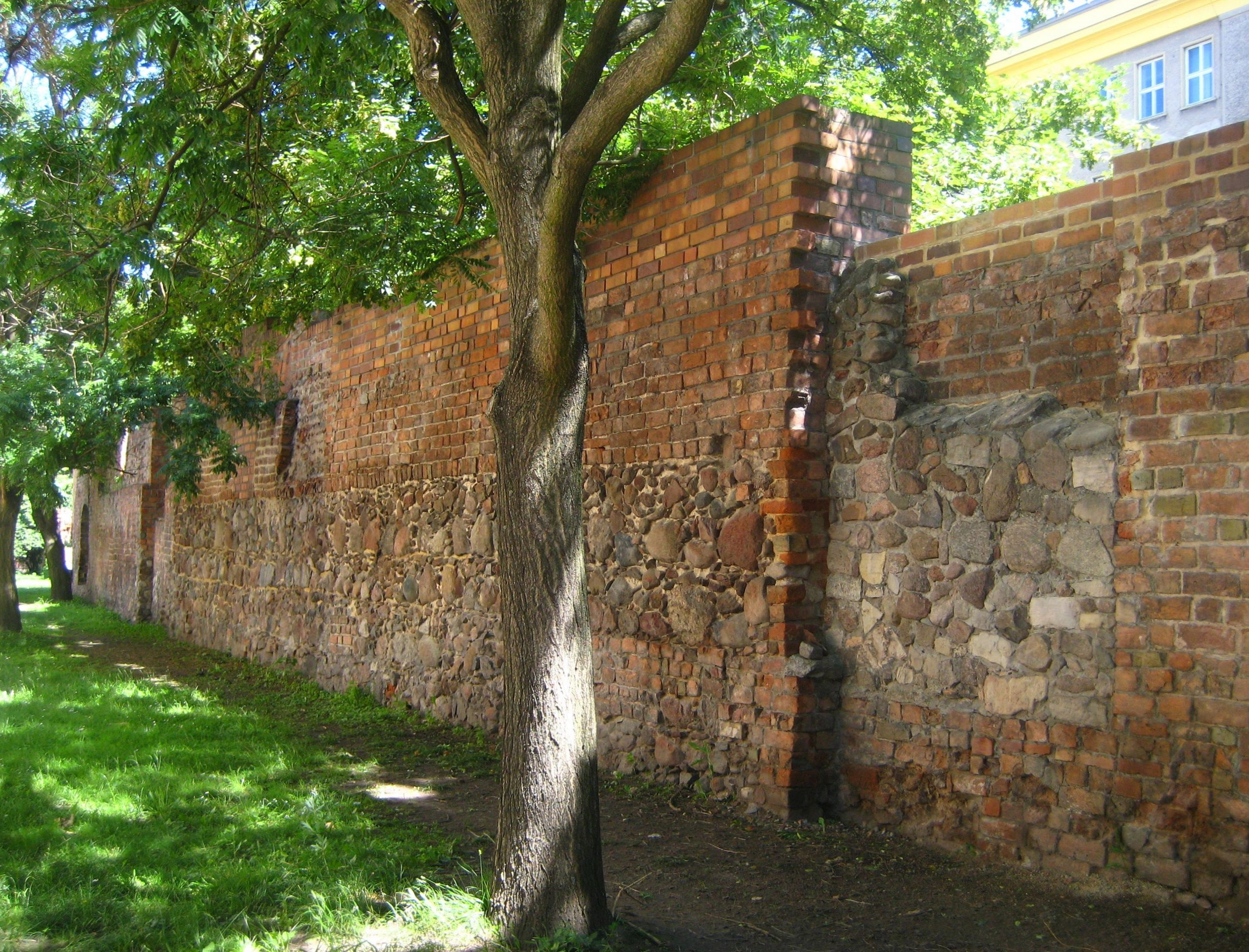 Remnants of the medieval city wall of Berlin between Waisenstraße and Littenstraße; landmarked.